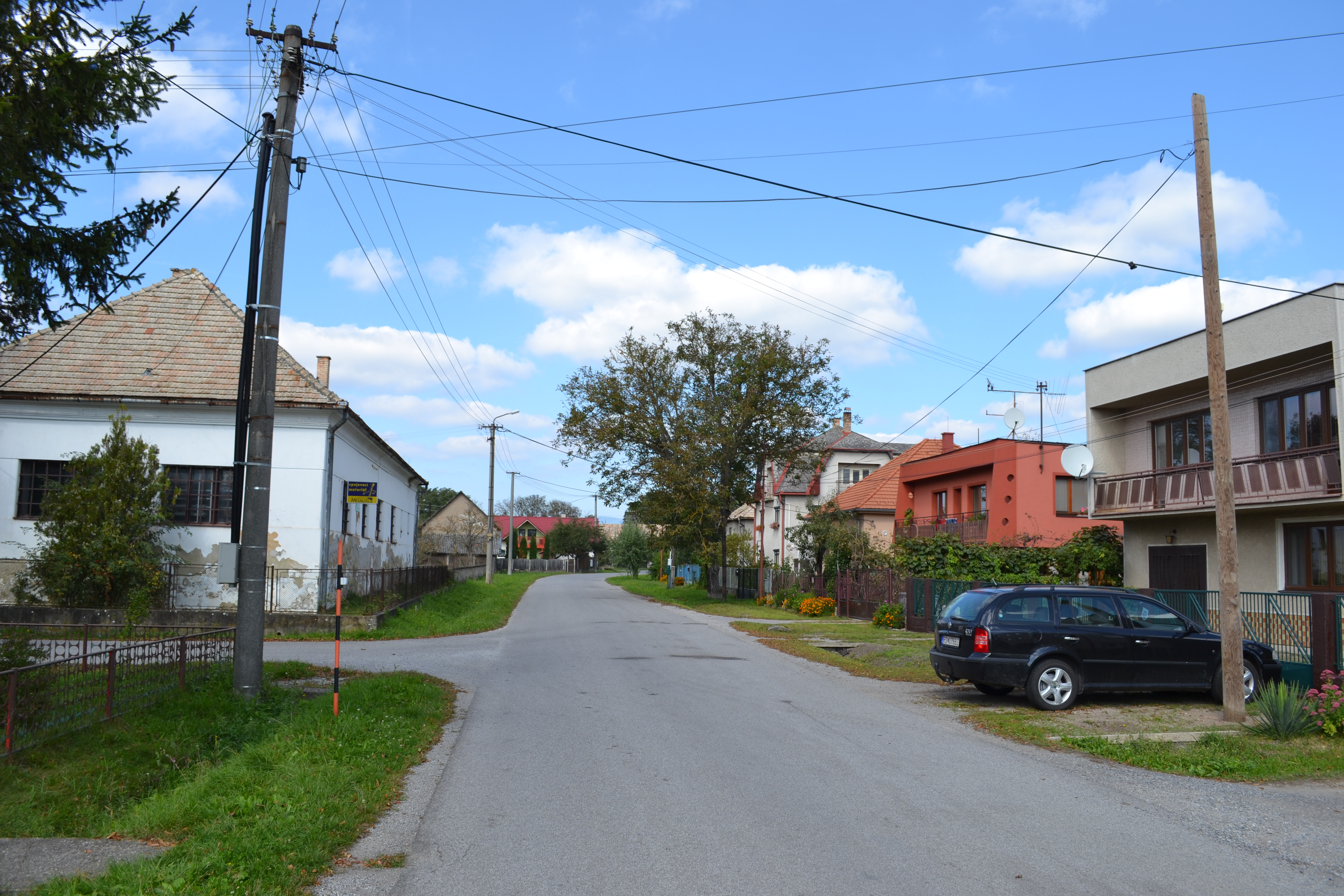 Street of the village Čerenčany